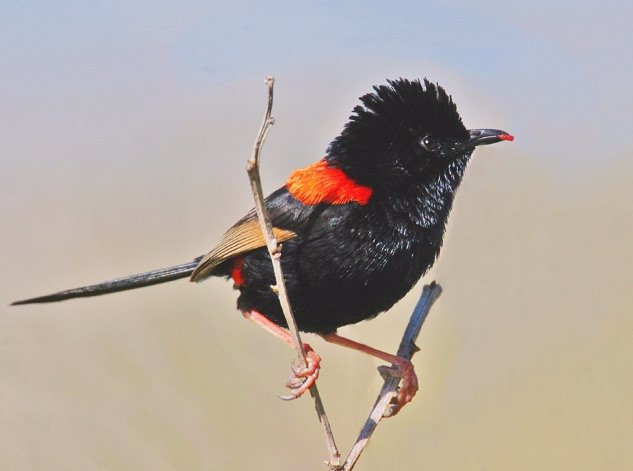 Red-backed Fairy-wren (Malurus melanocephalus) carrying red petal, Noosa